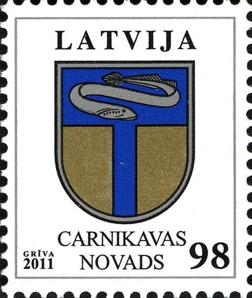 Stamps of Latvia, 2011